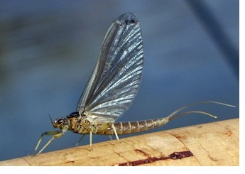 day-fly